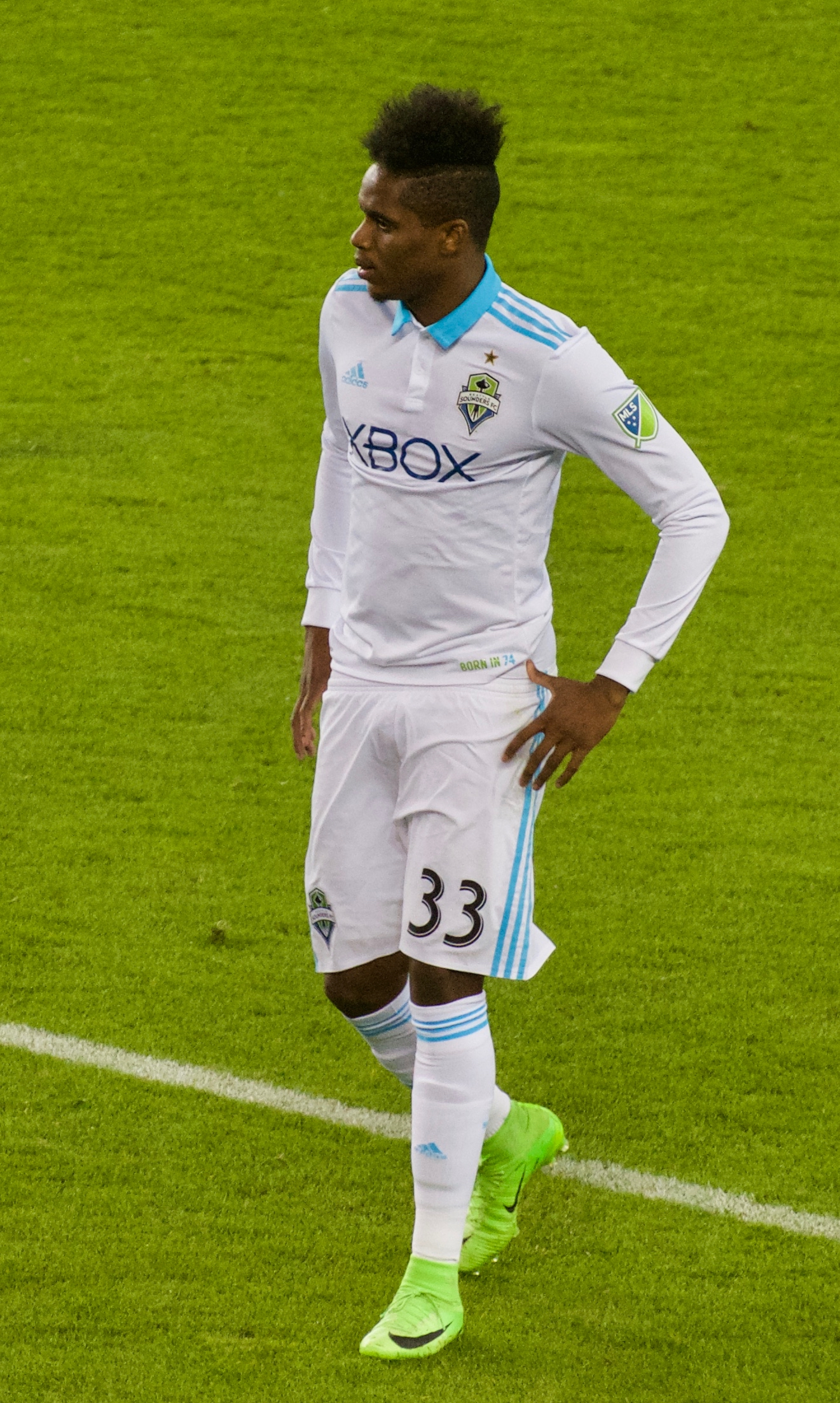 Joevin Jones playing for Seattle Sounders at Avaya Stadium in San Jose, California, on 8 April 2017